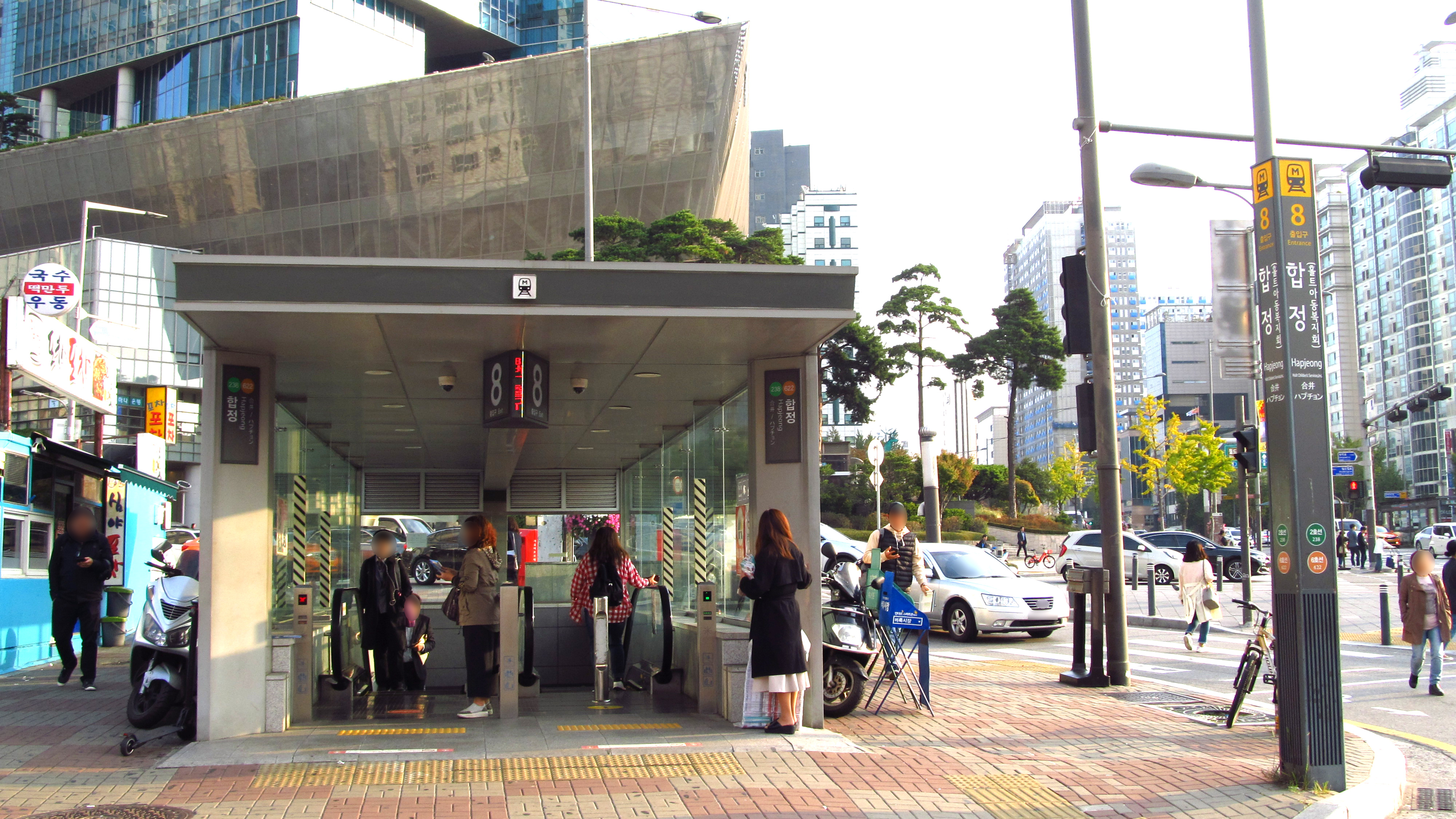 The no.8 entrance to Hapjeong Station on the Seoul Metro Line 2 and Line 6 in Mapo-gu, Seoul, Republic of Korea(South Korea)